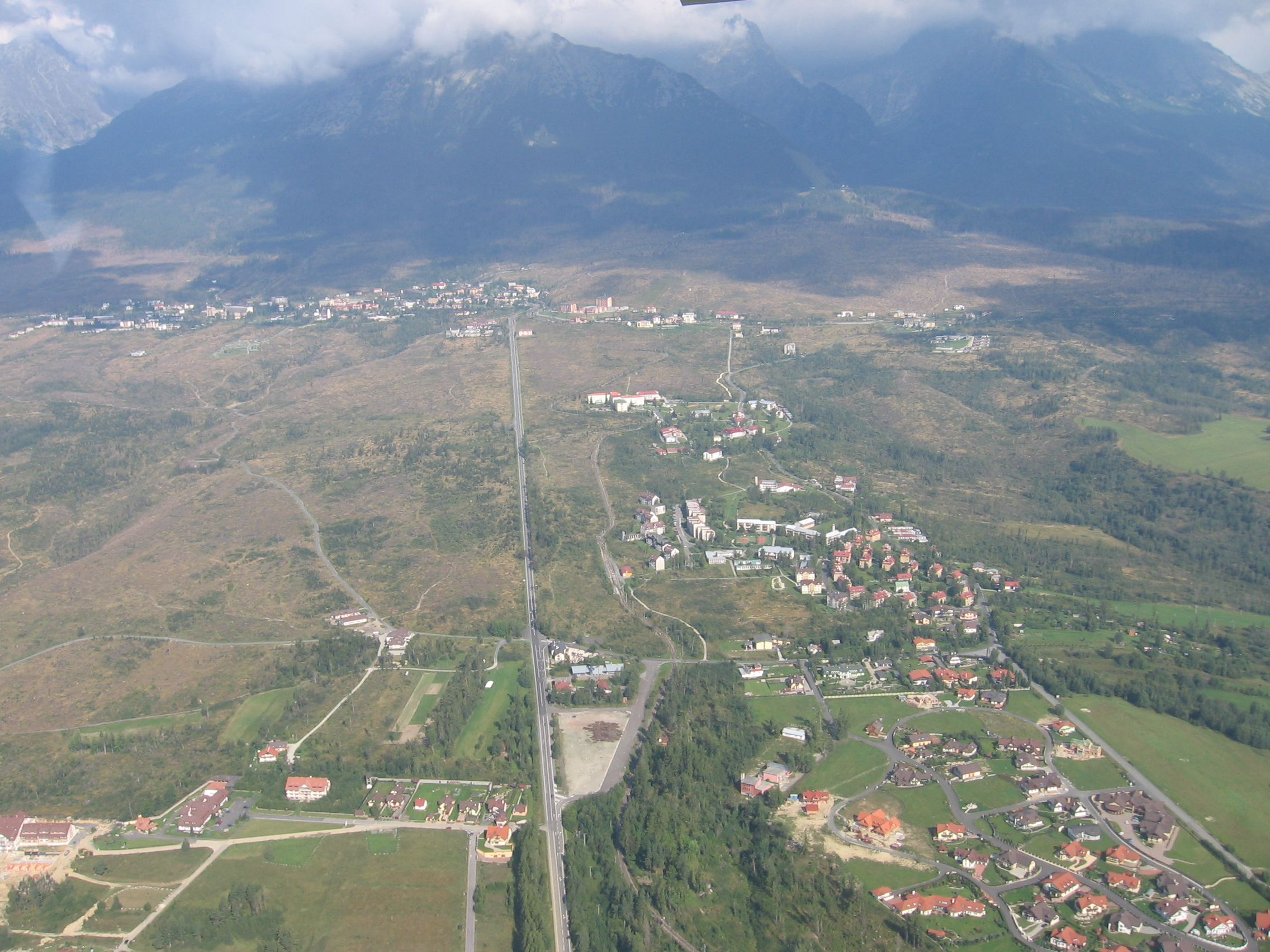 City of Vysoké Tatry (part Smokovce)